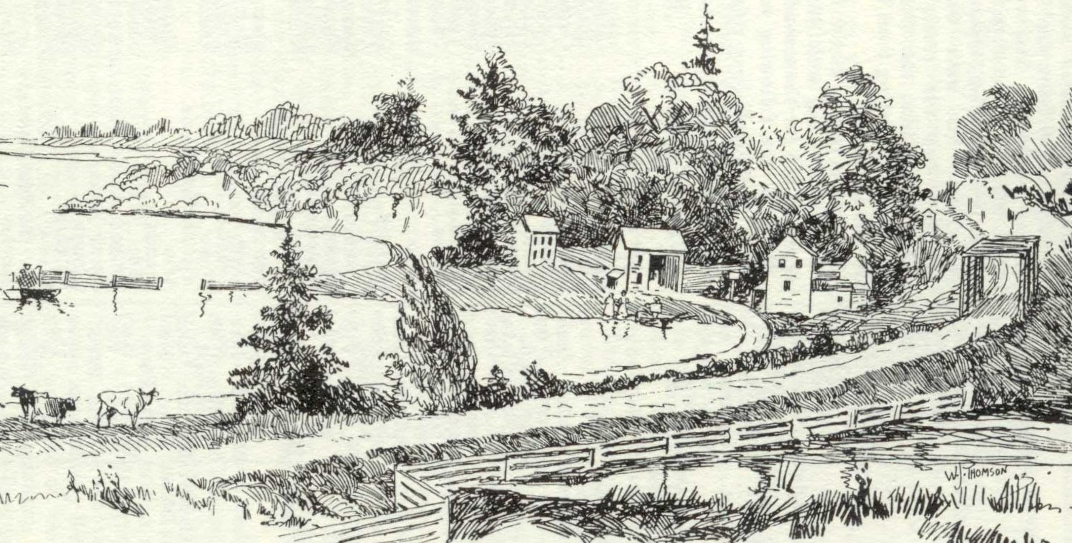 Early Sketch of the intersection of Lake Rd. (Lake Shore) with Stock's Side Road (Queensway) at the Humber River